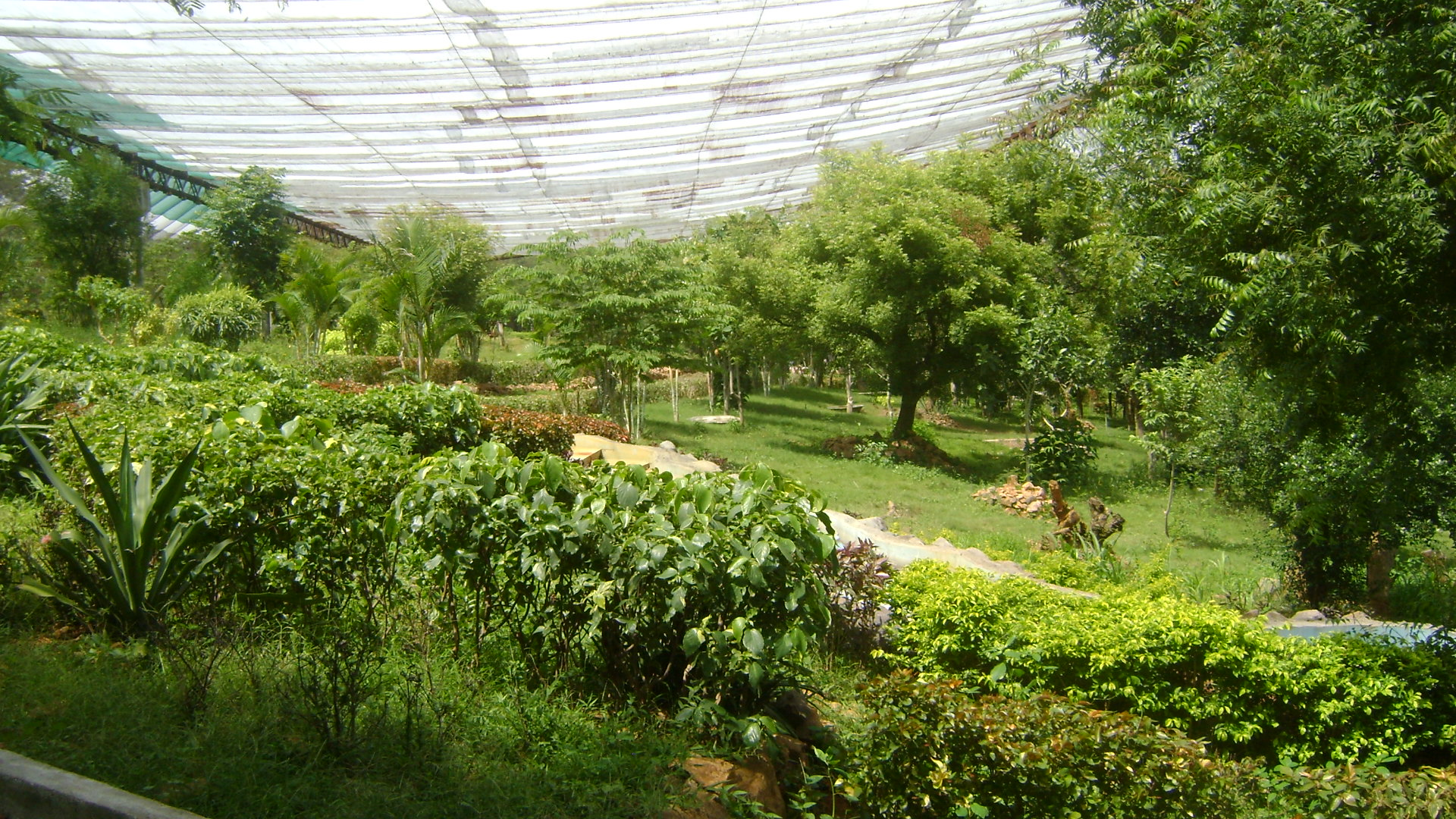 Slope of the Walkthrough Aviary at Vandalur Zoo, taken on 18 August 2012